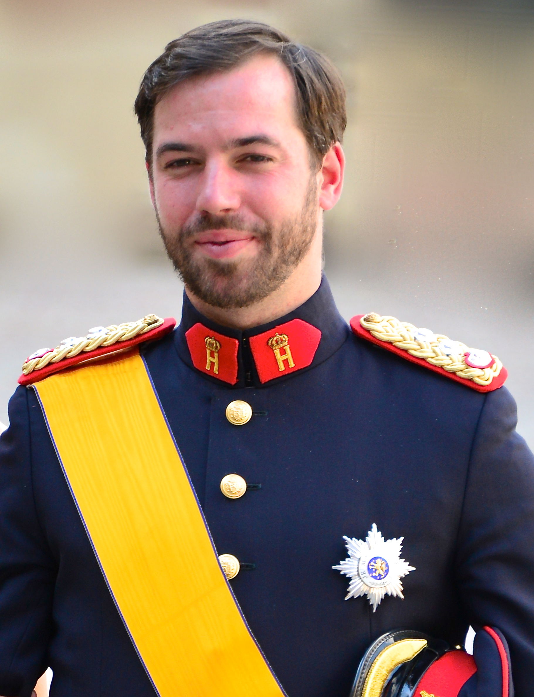 Guillaume, Hereditary Grand Duke of Luxembourg on the way to the castle church at the Royal Palace in Stockholm before the wedding between Princess Madeleine and Christopher O'Neill June 8, 2013.